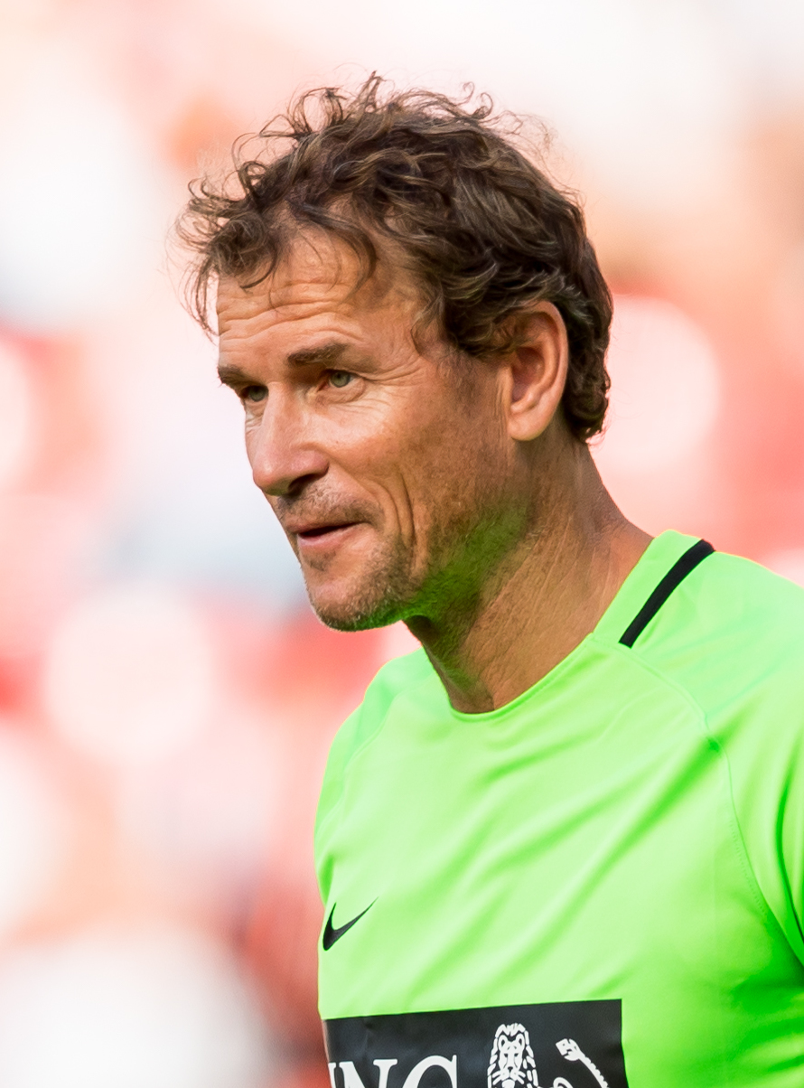 Jens Lehmann during Champions for Charity at BayArena, Leverkusen, Nordrhein-Westfalen, Germany on 2019-07-21, Photo: Sven Mandel